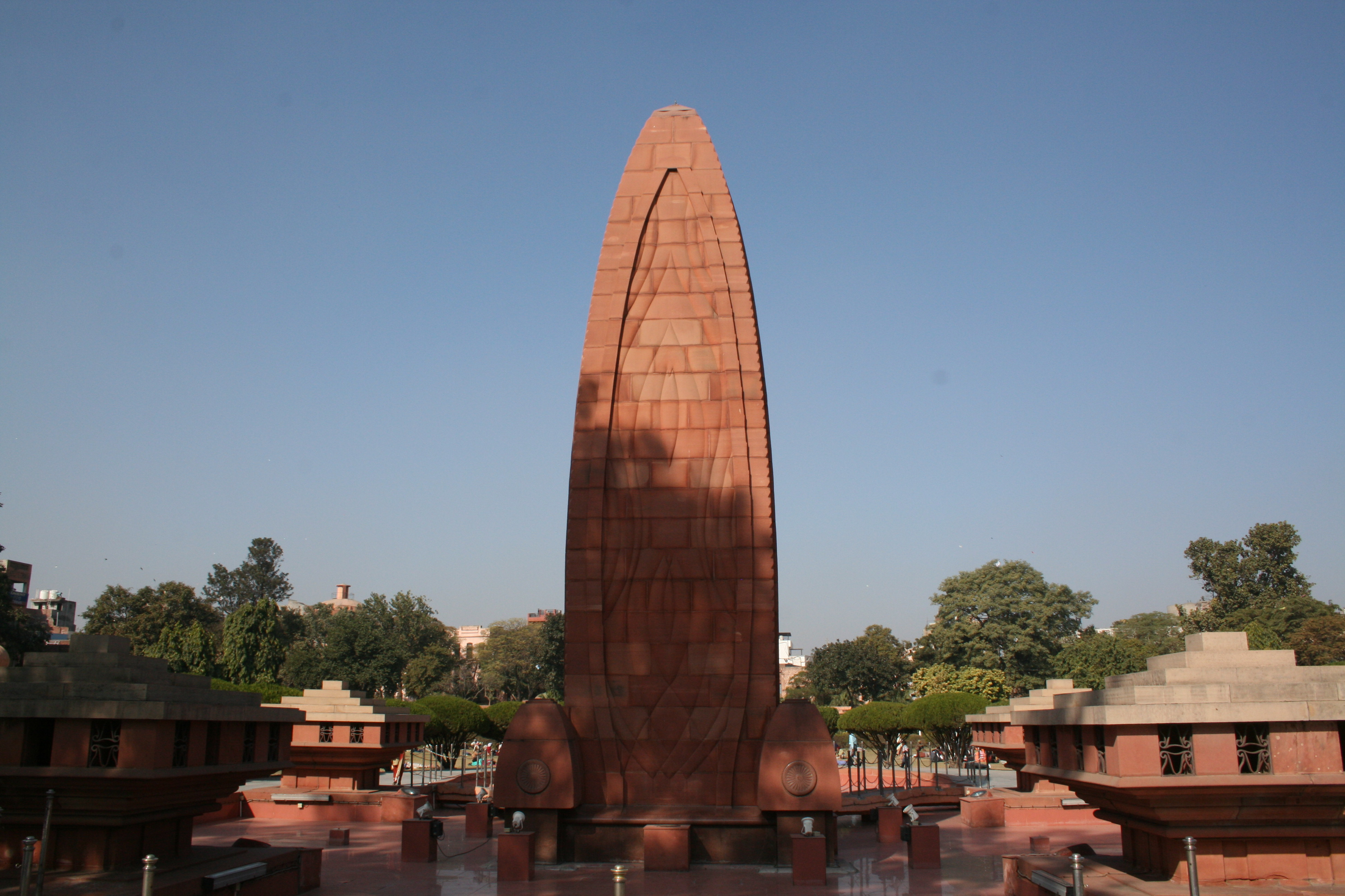 Jallianwala_Bagh, Amritsar, India